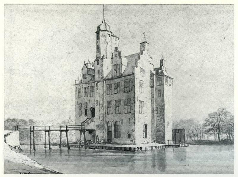 Castle Te Vliet near Lopik